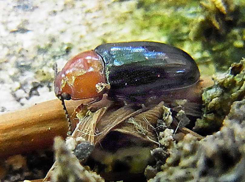 Triplax russica from Hungary, Bükk-mountains under bark of rotten beech at 2012-07-02